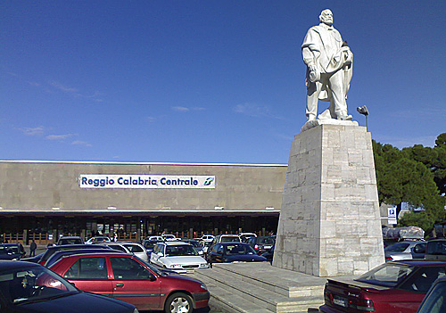 Garibaldi Square and monument, in front of the central railstation in Reggio Calabria